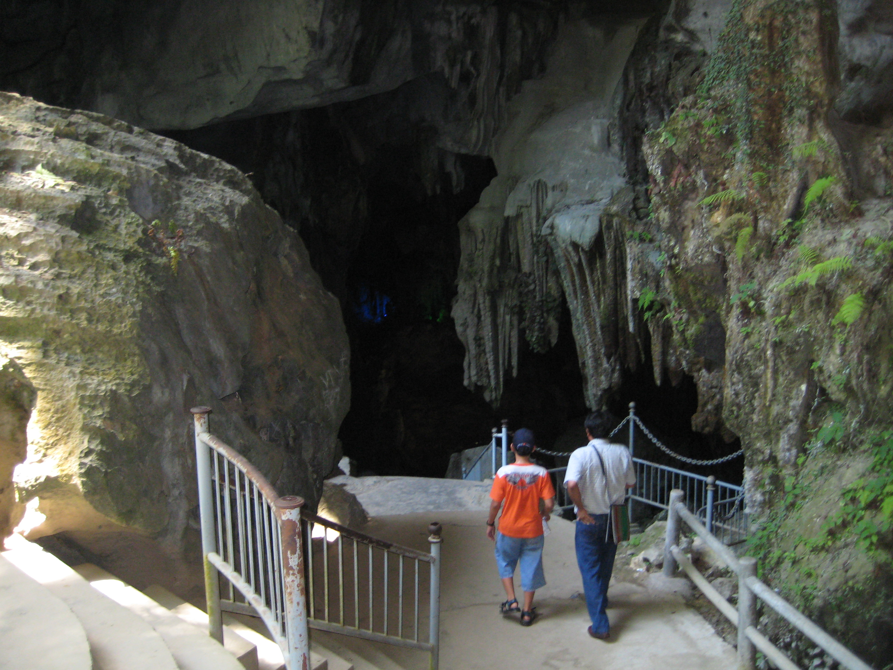 Tien Son cave in Phong Nha-Ke Bang